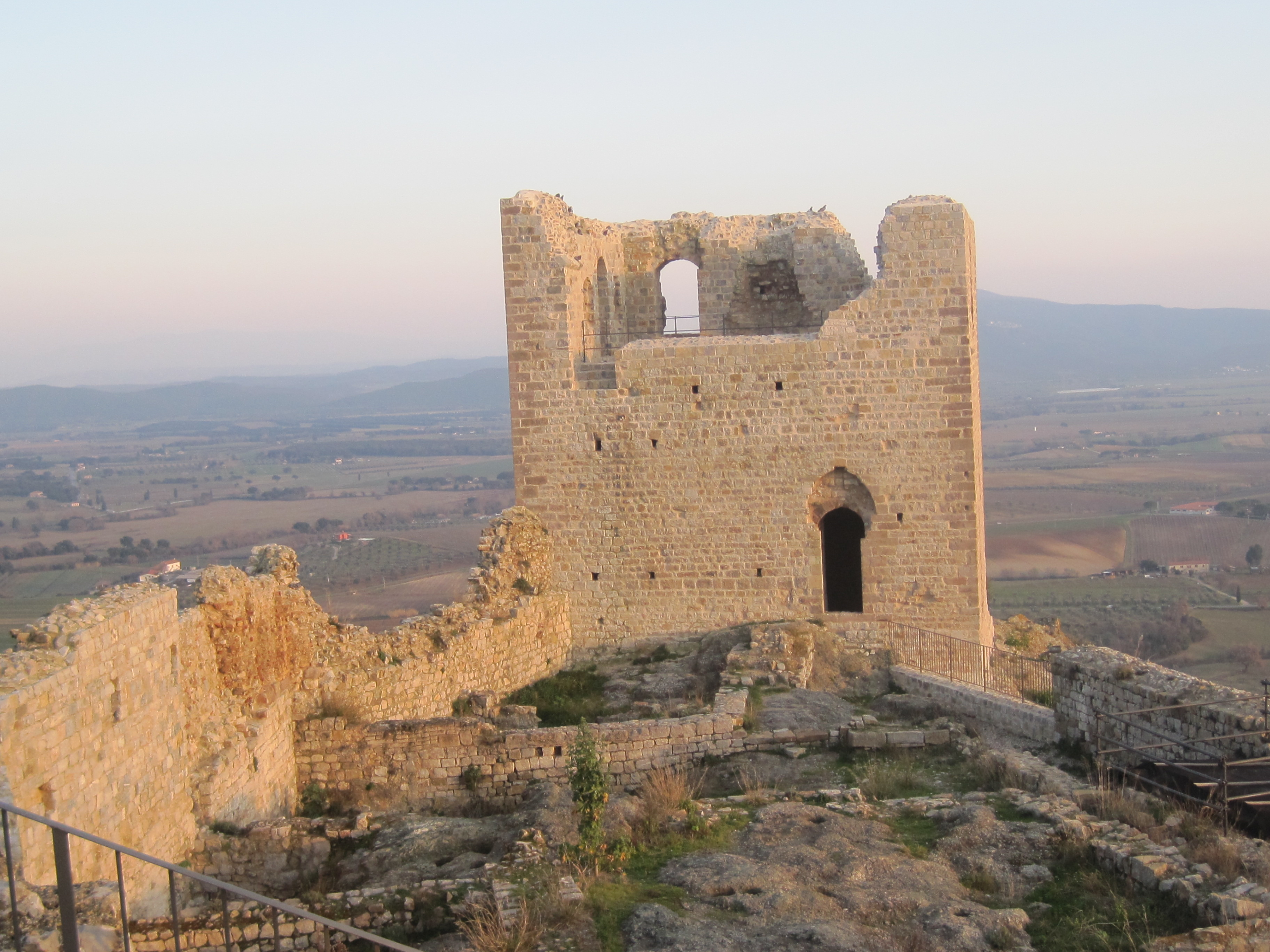 Castle of Montemassi, Grosseto